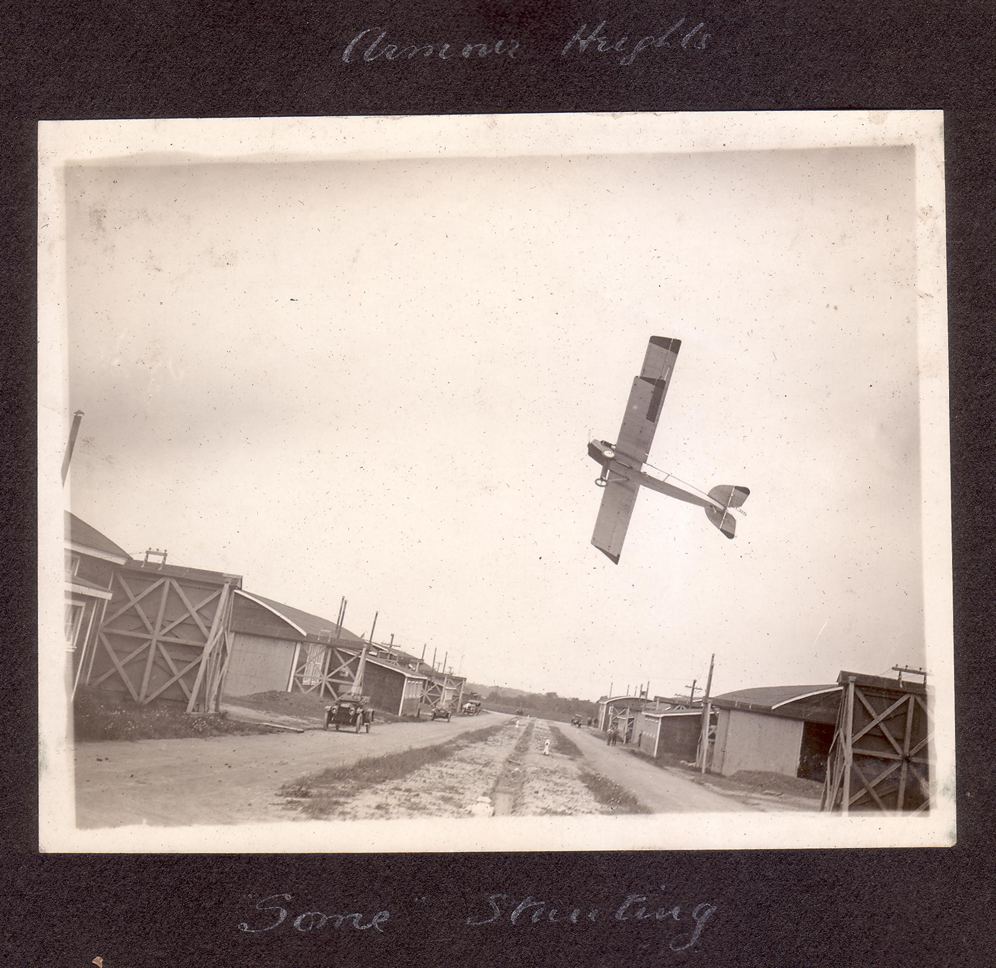 "Armour Heights: 'Some' Stunting" Photograph of aircraft in a steep climb above hangars at Armour Heights. Page of the photograph album compiled by Sergeant C. P. Devos while the Royal Flying Corps were training in their winter quarters near Fort Worth, Texas, 1917-1918.